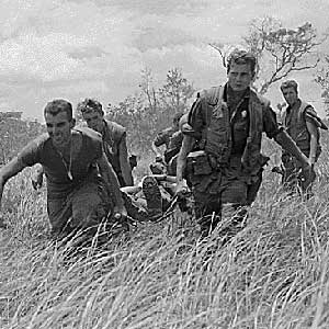 Marines of Company E, 2nd Battalion, 9th Marines, carry a fallen brother to a medevac during Operation Hickory III near the DMZ.